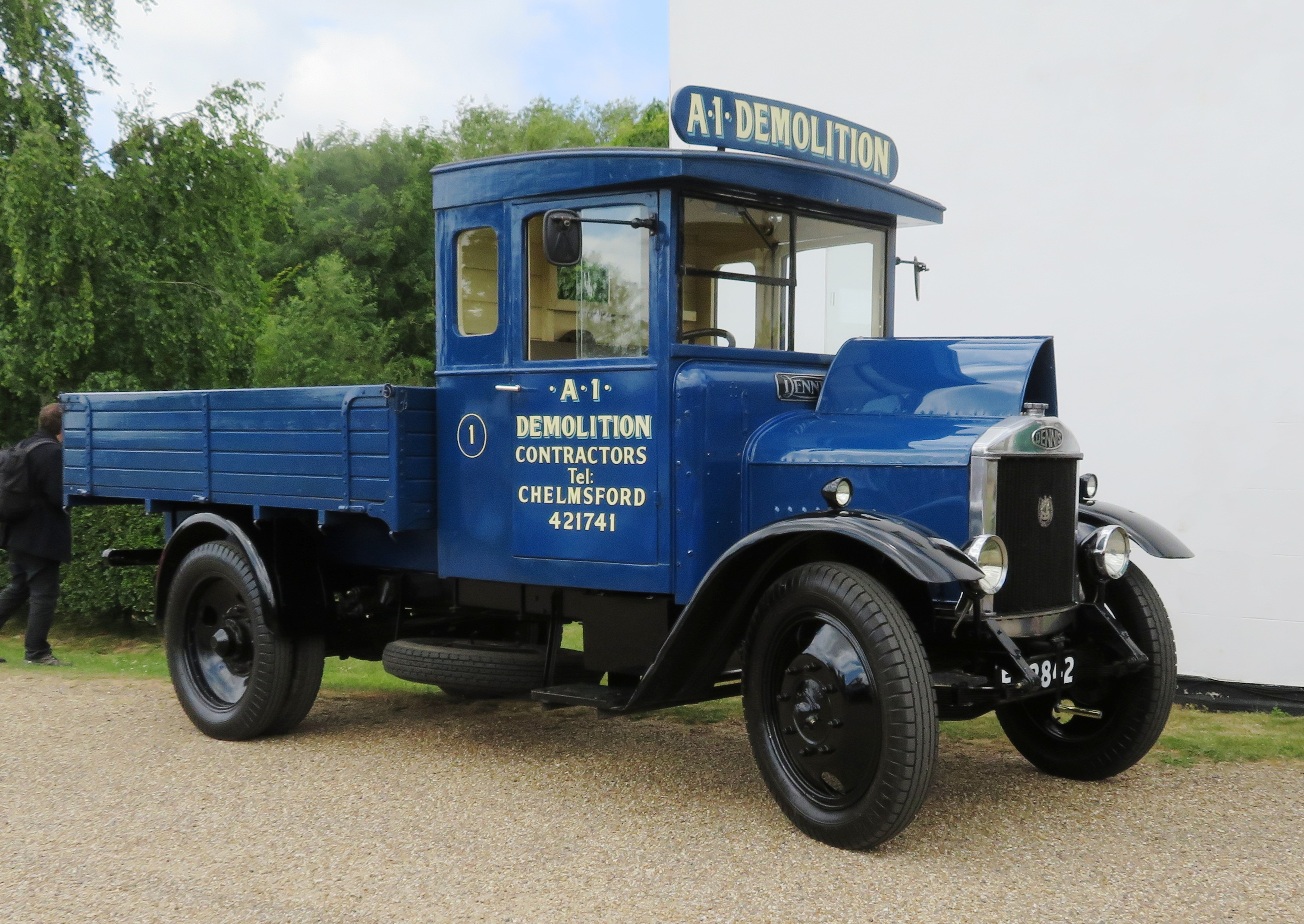 Dennis truck (1931)